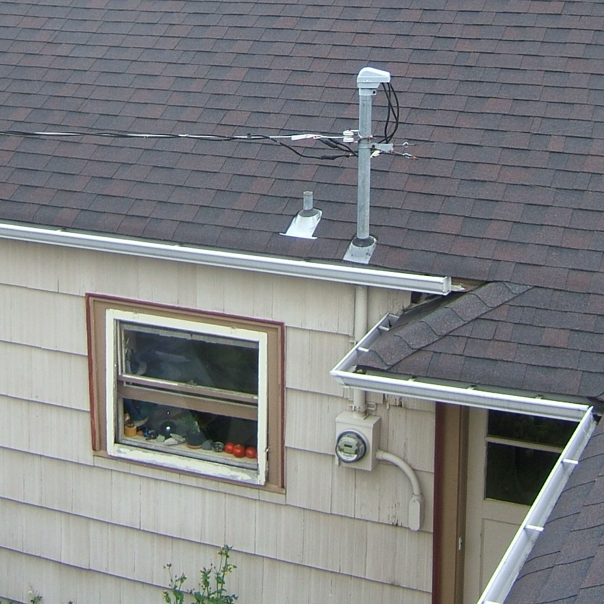 An electrical service drop, where electric power is supplied from overhead power lines to a residence in Mount Vernon, Washington, USA. This provides the 110V/240V "split phase" power standard in North America. The "triplex" cable from the utility pole (left) consists of two lines each carrying 120 volts, and an uninsulated ground cable. The cable provides 120 V power for loads connected between one of the phase cables and ground, and 240 V power to loads connected between the two phase cables. The cable enters a conduit through a weatherhead, and drops down to the electric meter, then passes through the wall of the house to the service panel, where it is connected to the home power wiring.